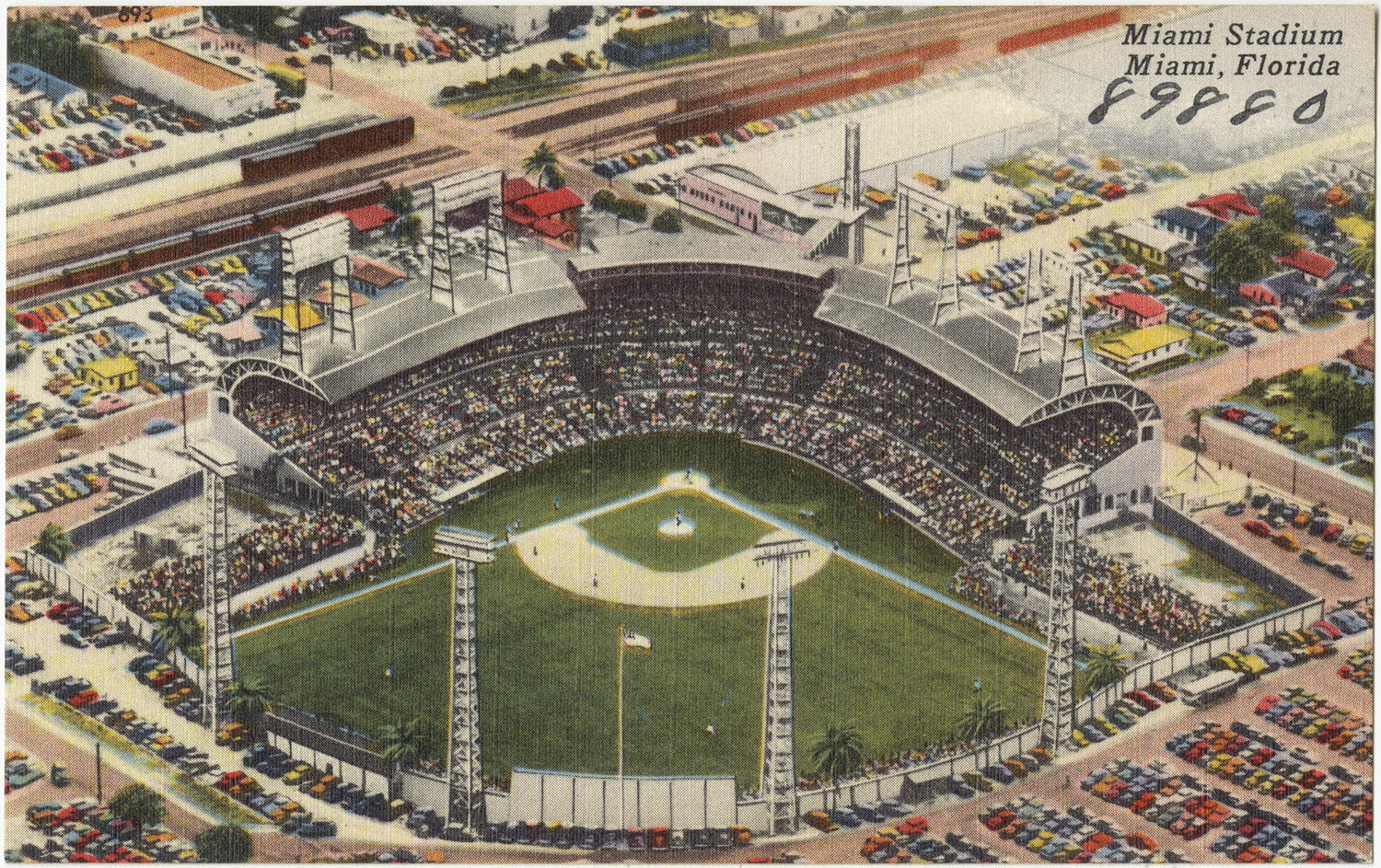 File name: 06_10_008167 Title: Miami Stadium, Miami, Florida Date issued: 1930 - 1945 (approximate) Physical description: 1 print (postcard) : linen texture, color ; 3 1/2 x 5 1/2 in. Genre: Postcards Subject: Stadiums Notes: Title from item. Collection: The Tichnor Brothers Collection Location: Boston Public Library, Print Department Rights: No known restrictions